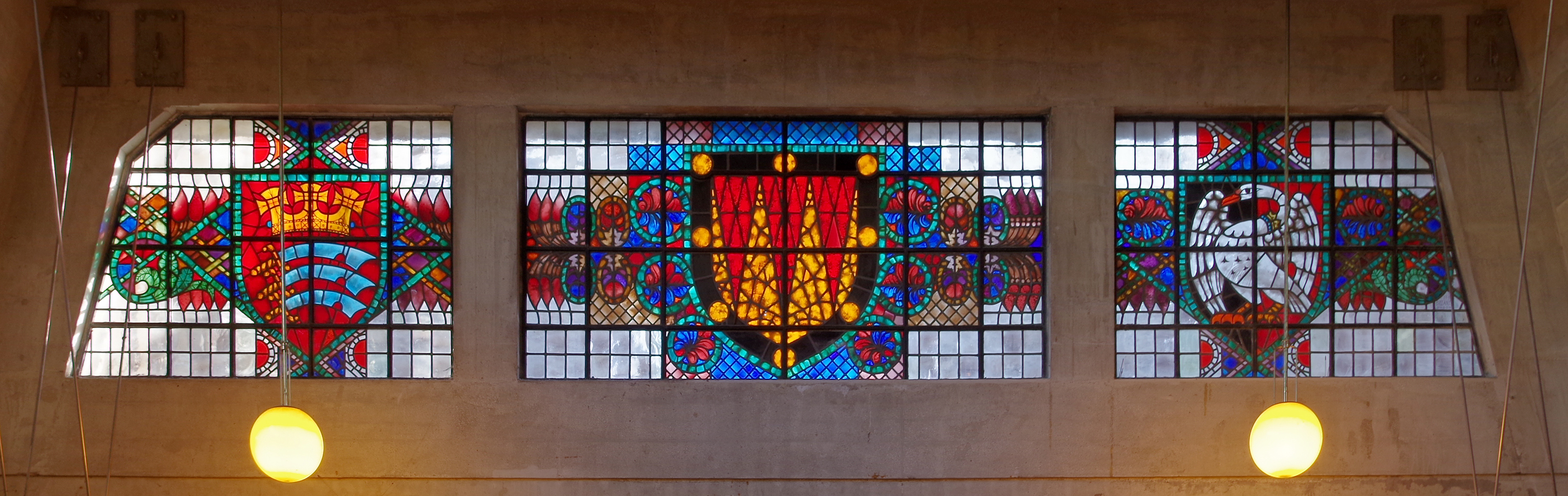 Stained glass at the end of the train shed at Uxbridge tube station.